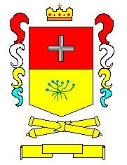 Coat of Arms, city of Linares, Chile